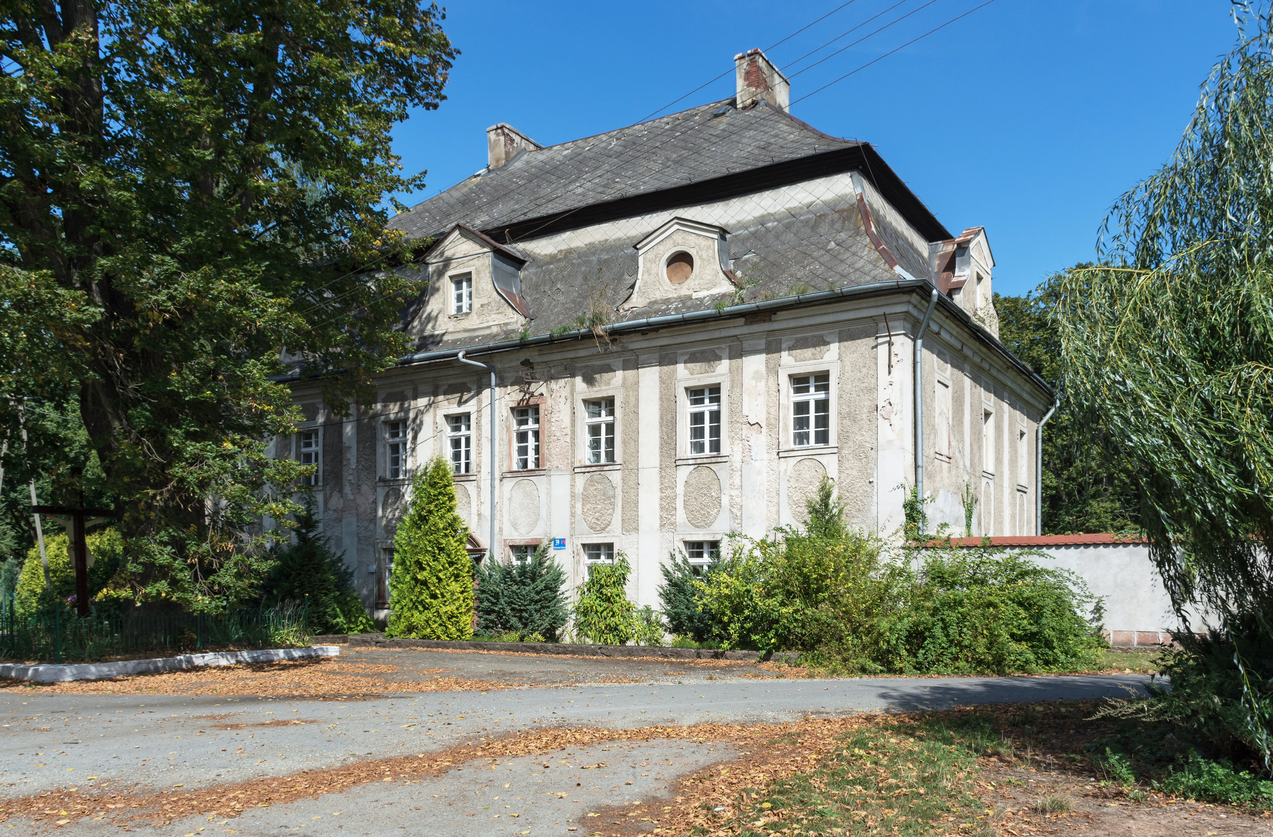 Sarny summer palace